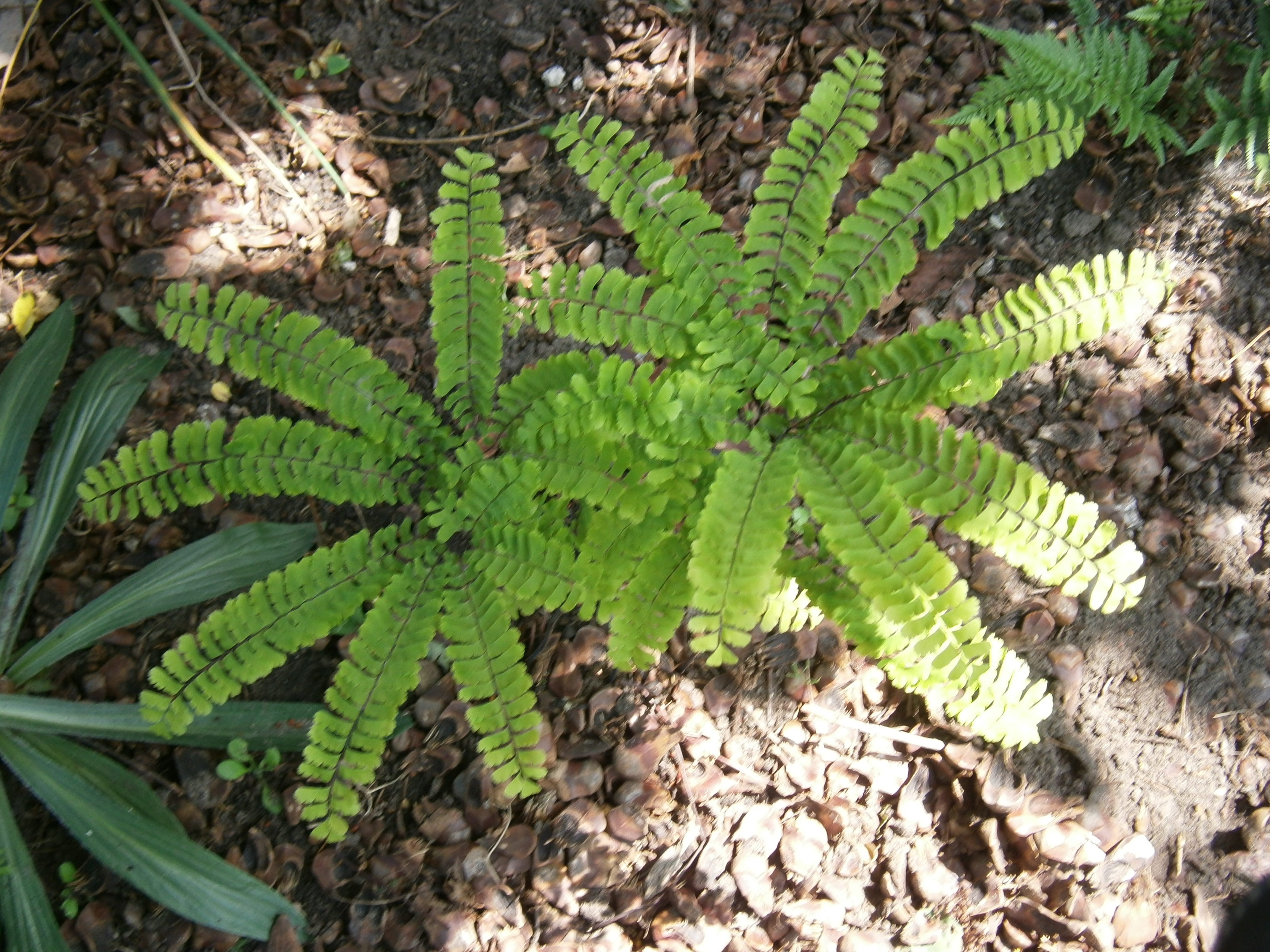 Adiantum pedatum